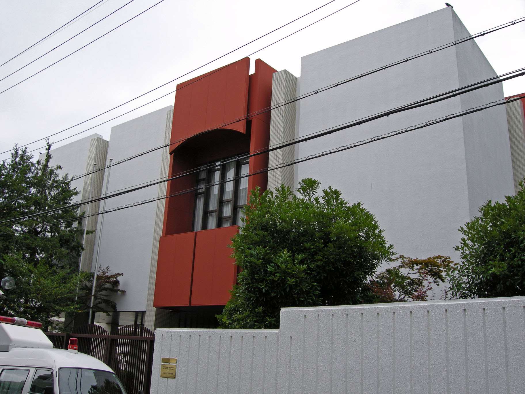 Russian Consulate in Osaka, Toyonaka city, Osaka prefecture, Japan